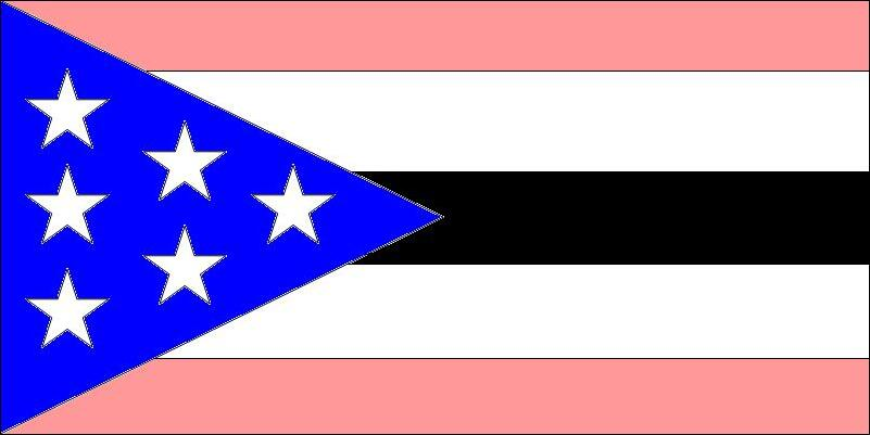 Flag of the Arkansas Army, based on description by Eric Flint in "1824: The Rivers of War."